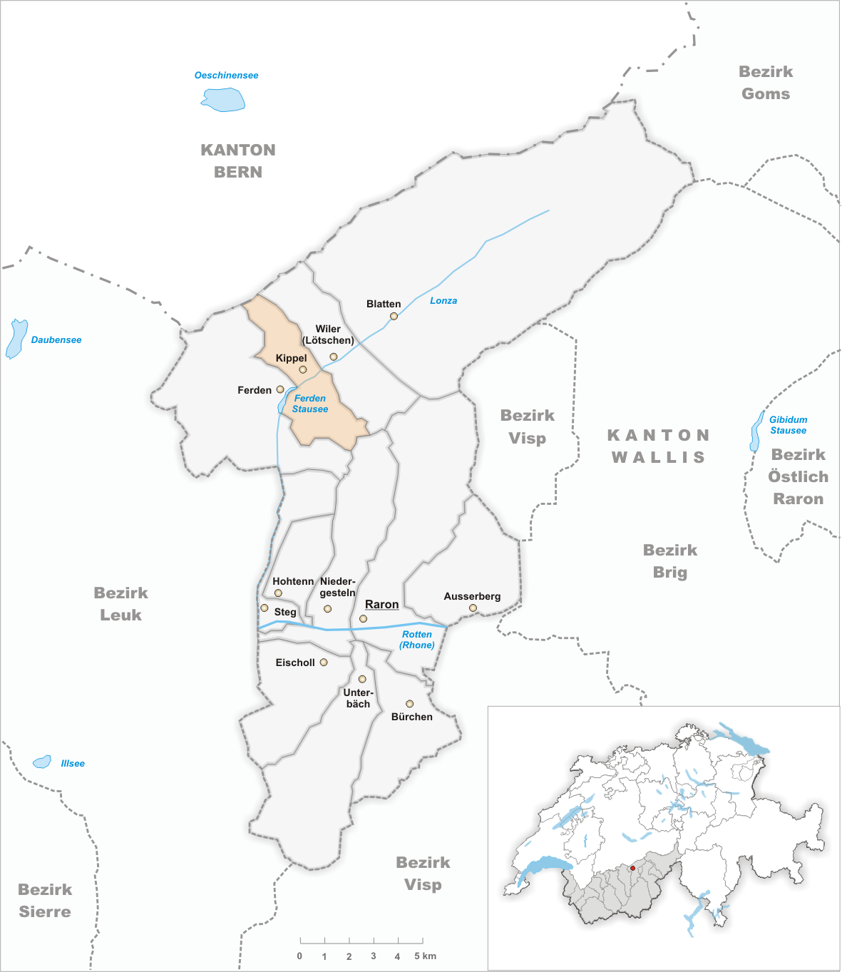 Municipality Kippel